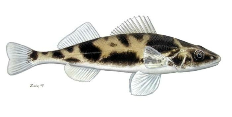 This fish is Zingel zingel Linnaeus 1766 which lives in river Tisza and Danube in Hungary